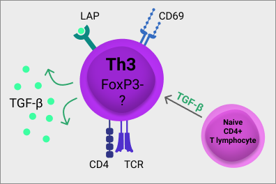 Th3 cells arise from naive CD4+ T lymphocytes in the presence of TGF-β, express CD4, CD69, LAP and produce TGF-β.